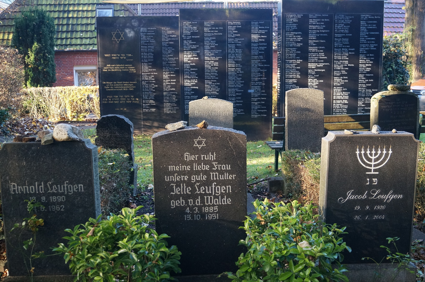 EMDEN-2